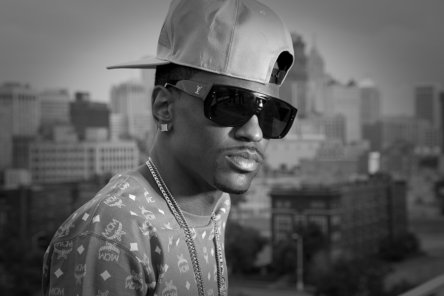 Big Sean in 2009